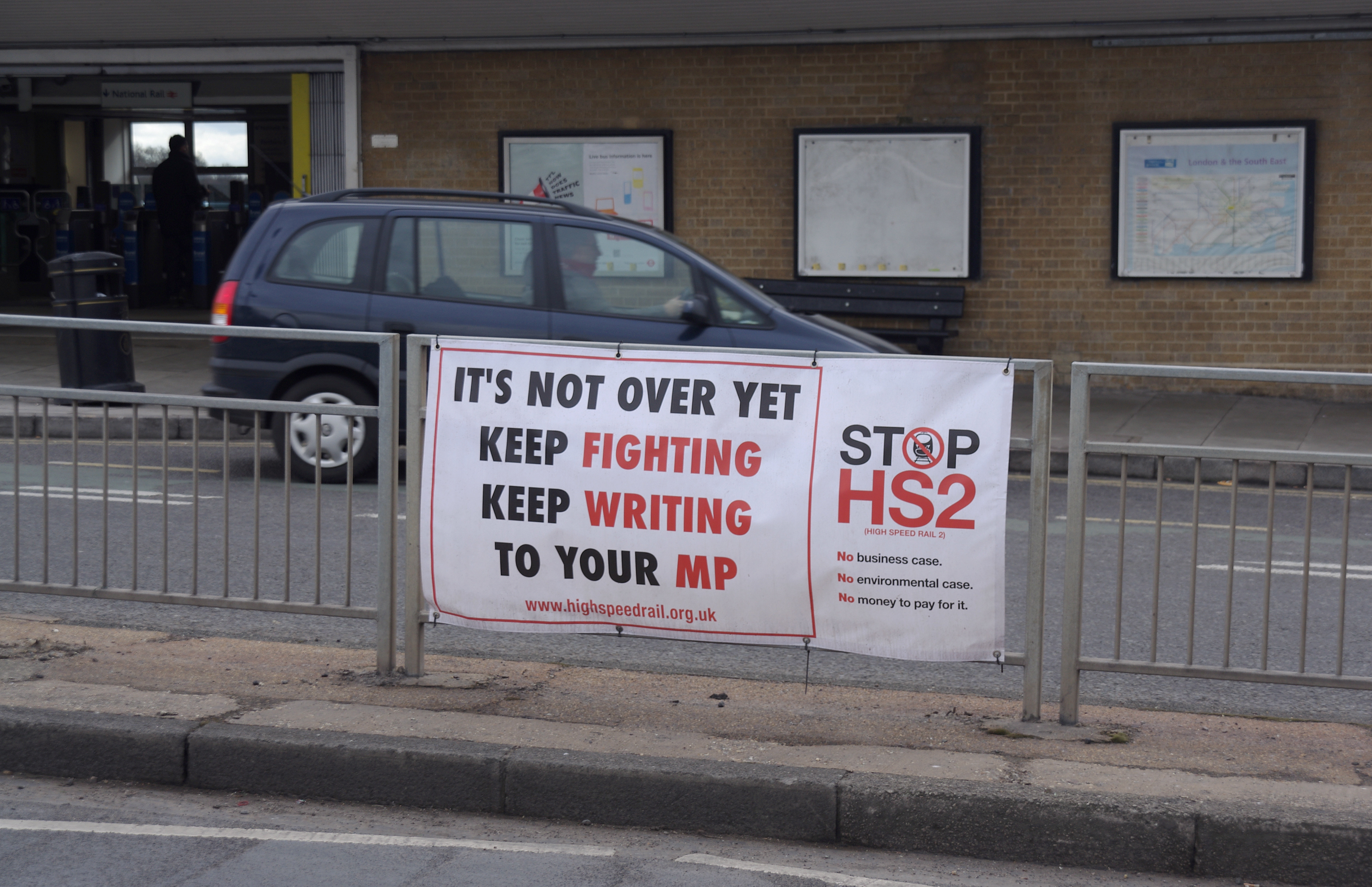 A "Stop HS2" banner outside West Ruislip railway station in London.